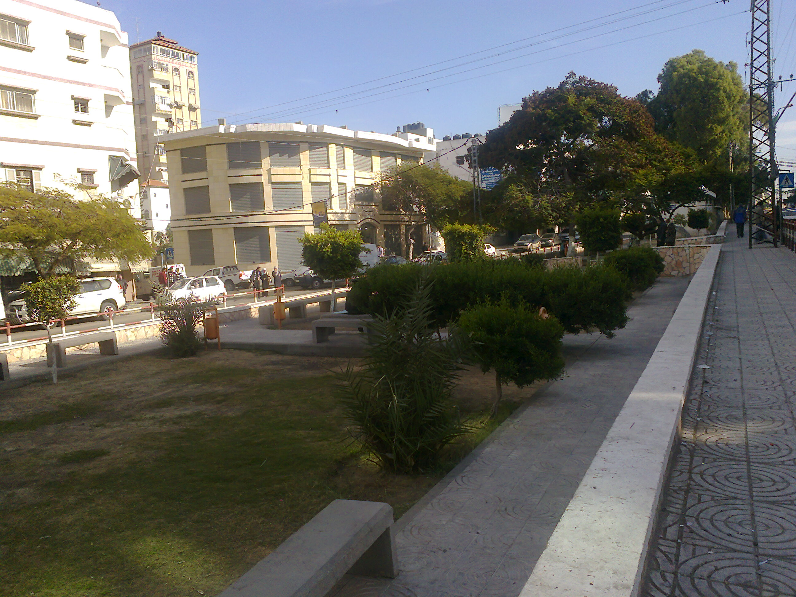 شارع في غزة A street in Gaza